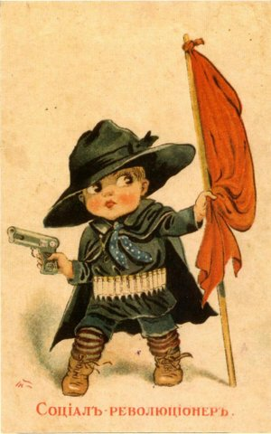 Postcard by Vladimir Taburin